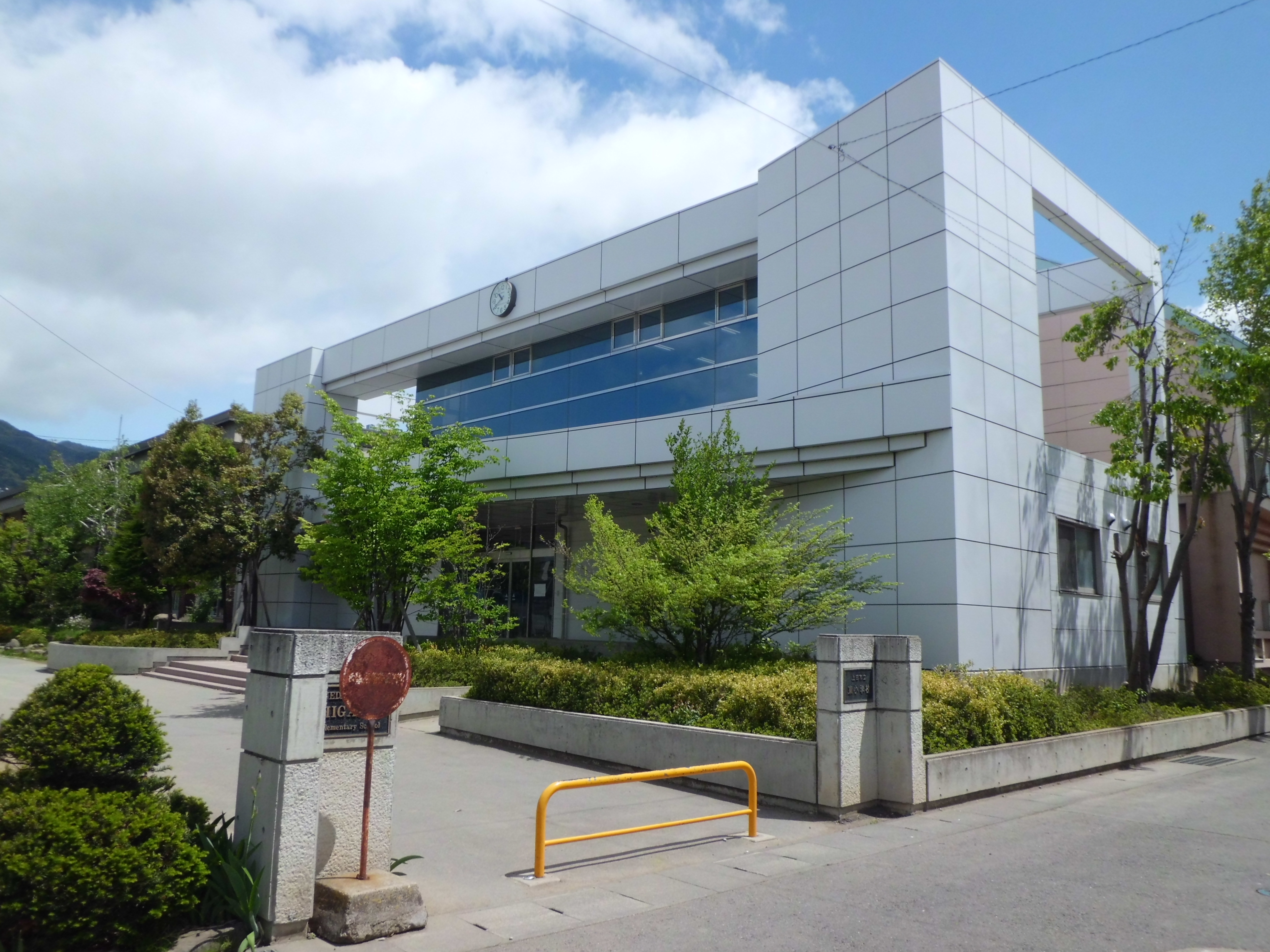 Higashi Elementary School in Ueda city, Nagano prefecture, Japan.